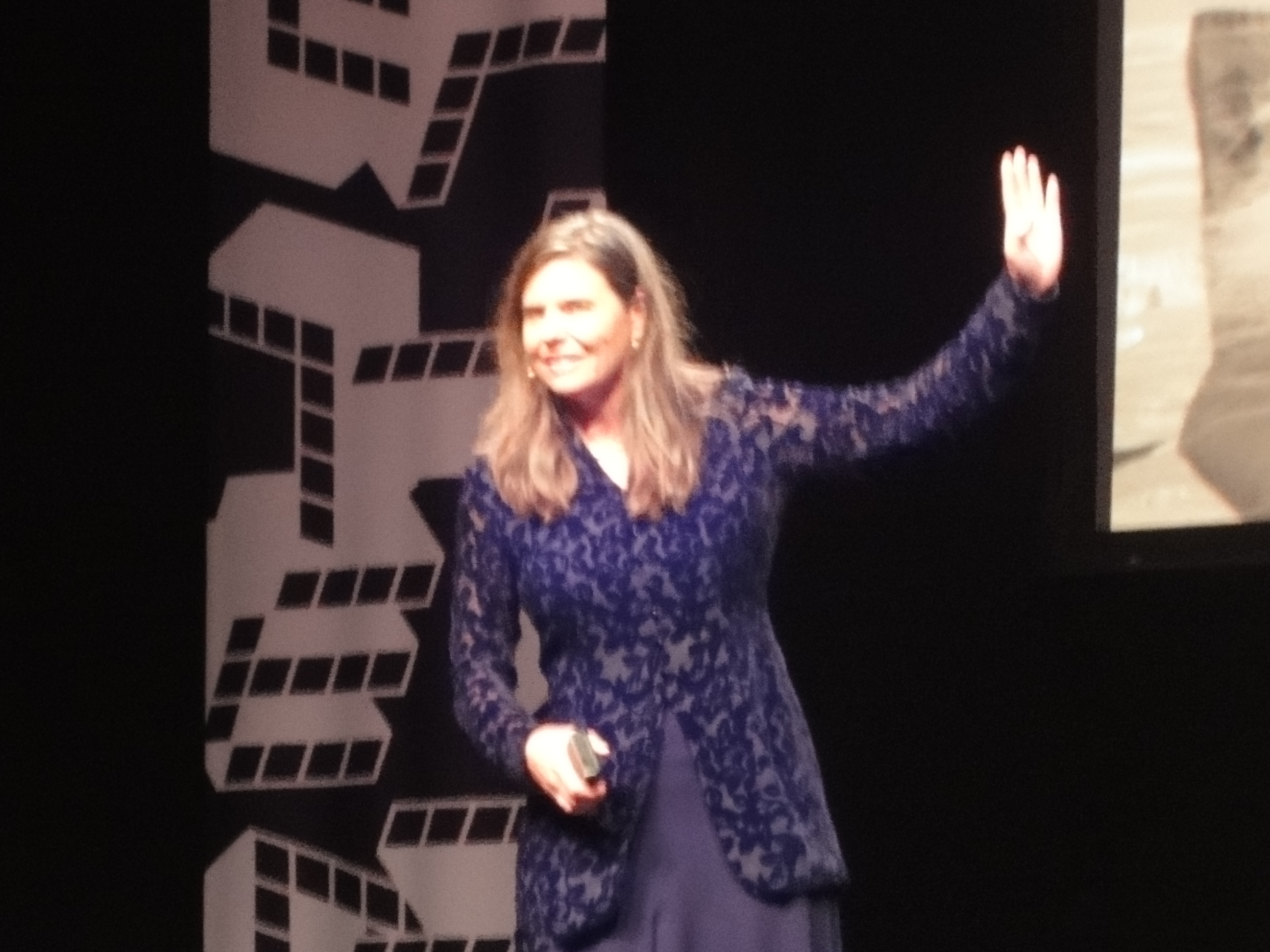 This is a photo captured at a TEDxRotterdam event.